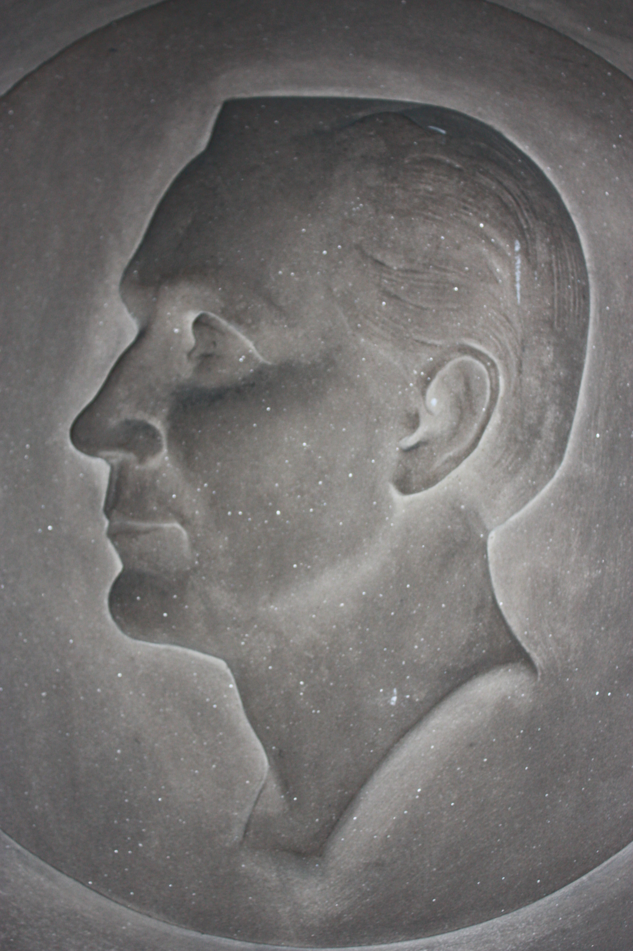 Plaque to Albert Ernest Laurie, Old St Pauls Church, Edinburgh